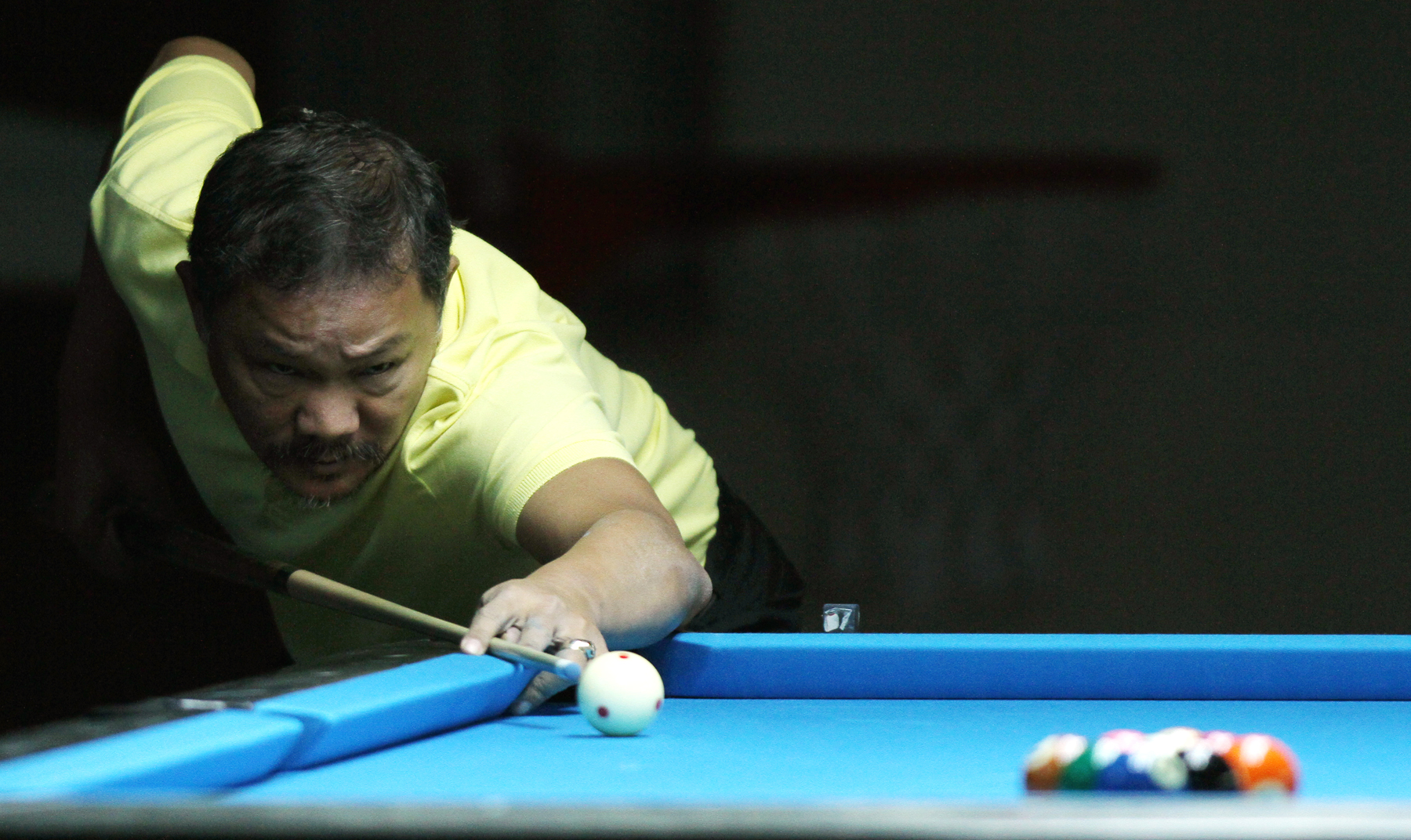 Filipino superstar Efren Reyes competes in the World 9-Ball Pool Championship in Doha. Picture by Vinod Divakaran